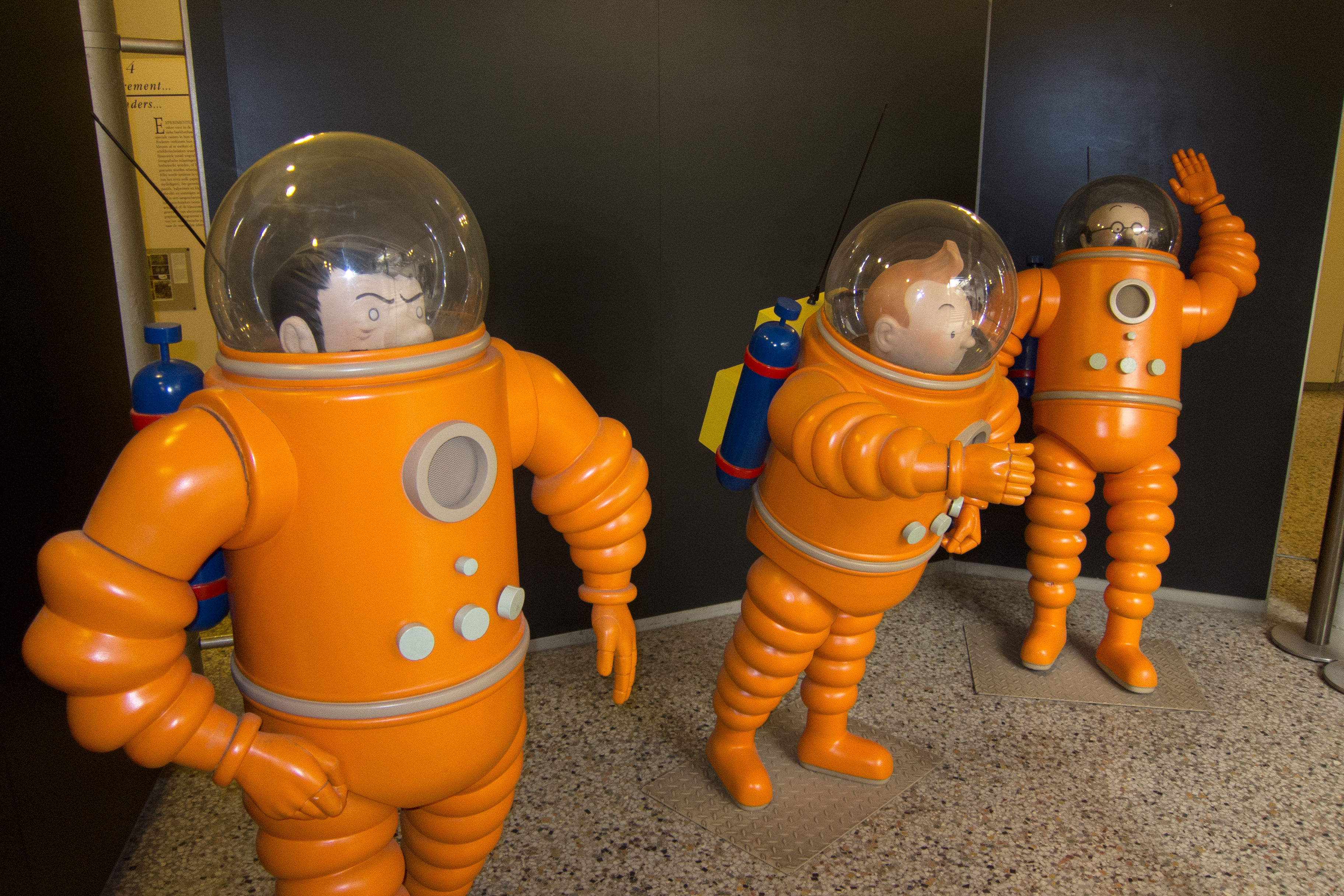 Tintin spacesuits, Belgian Comics Museum, Brussels, Belgium, 2011